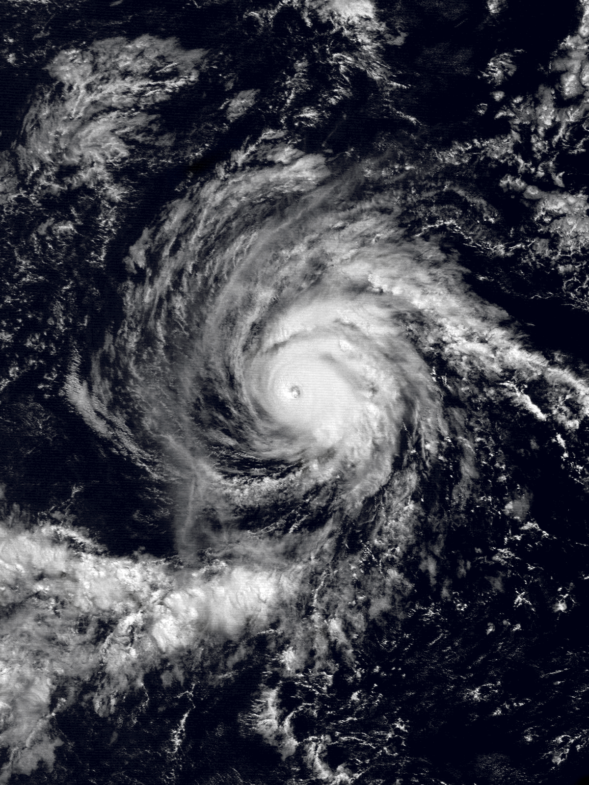 Hurricane Ignacio at peak intensity over the open Northeastern Pacific on July 23, 1985